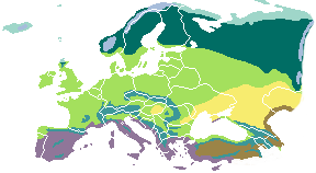 Vegetation in Europe (see also: Image:Europe biogeography countries.svg)